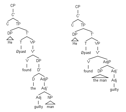 Syntactic trees differentiating between a non-resultative and resultative phrase.